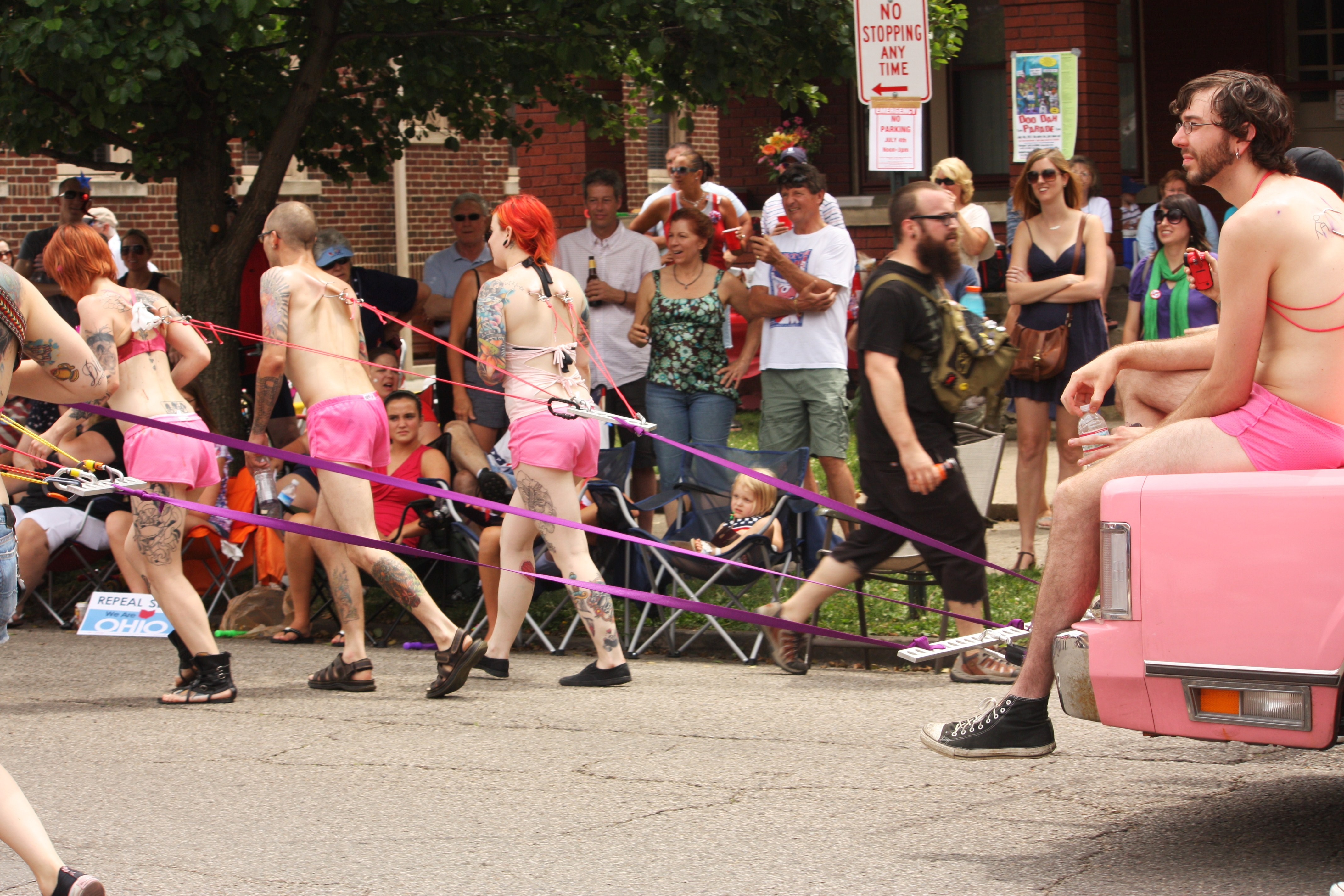 People pulling a car with hooks piercing their backs, 2011 Doo Dah Parade, Columbus, Ohio. Parade route viewed on W. 2nd Ave. in The Short North.